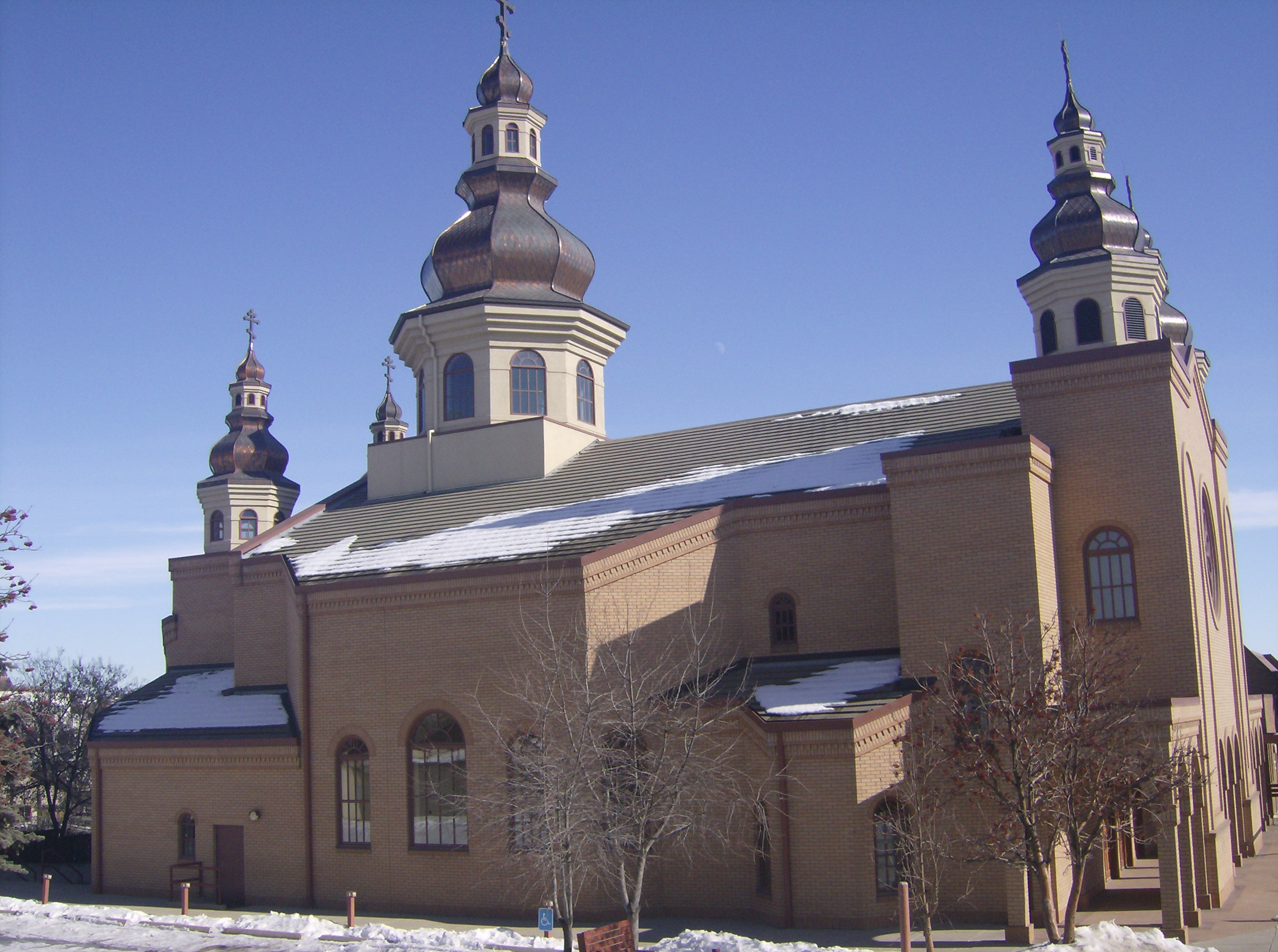 Ukrainian Orthodox church in Calgary